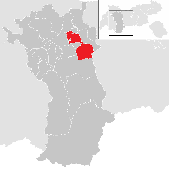 District Imst